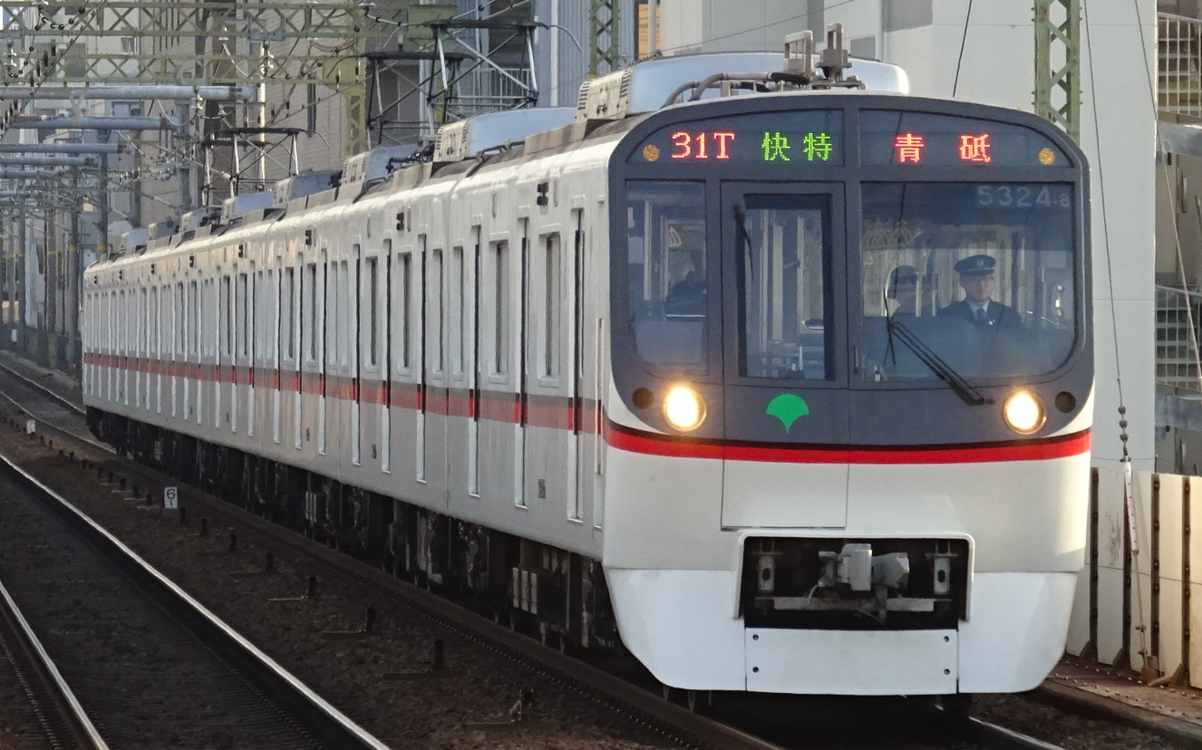 Toei 5300 series EMU set 5324 approaching Shinbamba Station on the Keikyu Main Line in Tokyo, Japan